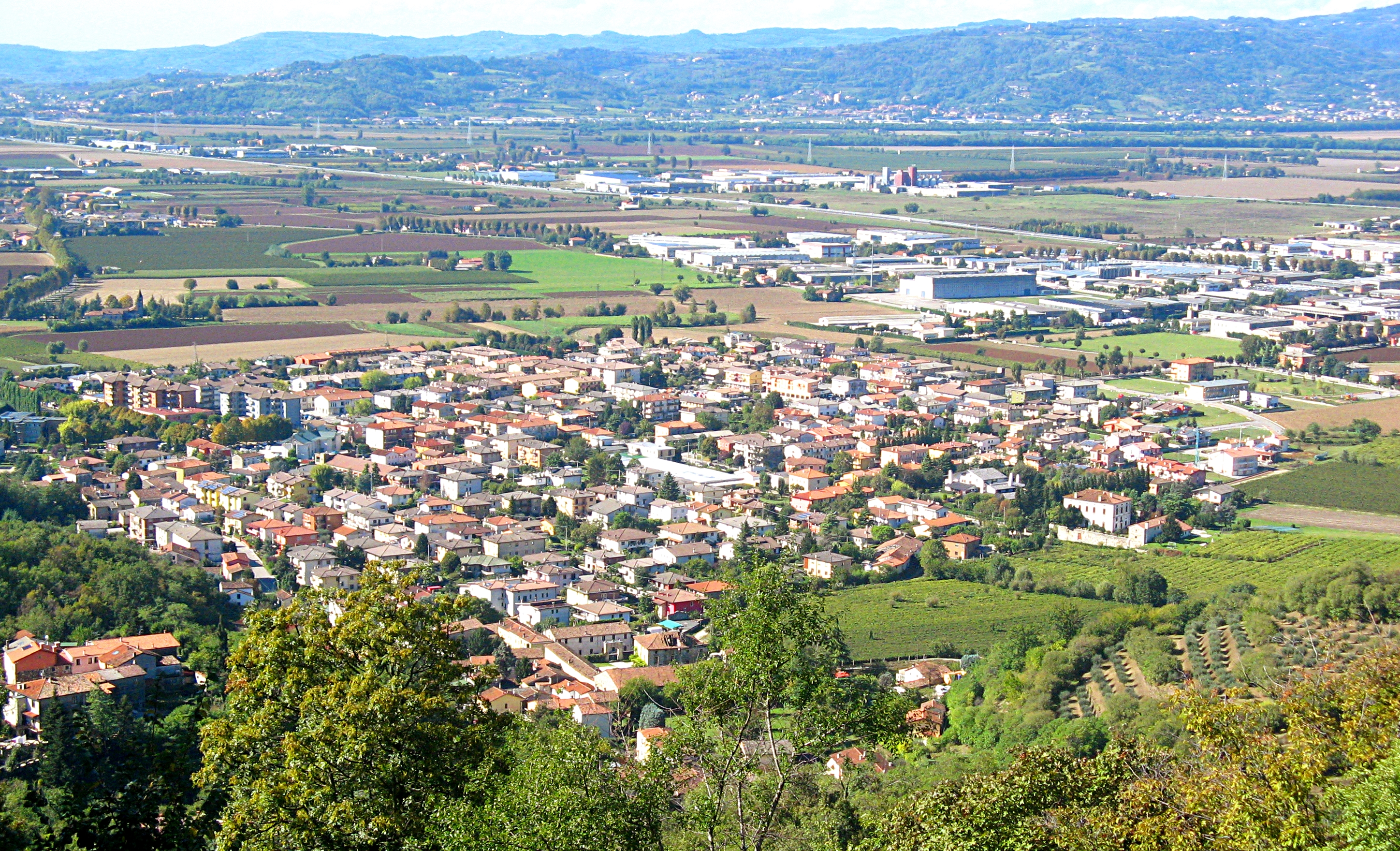 View on Brendola center, from the high castle "Rocca dei Vescovi"